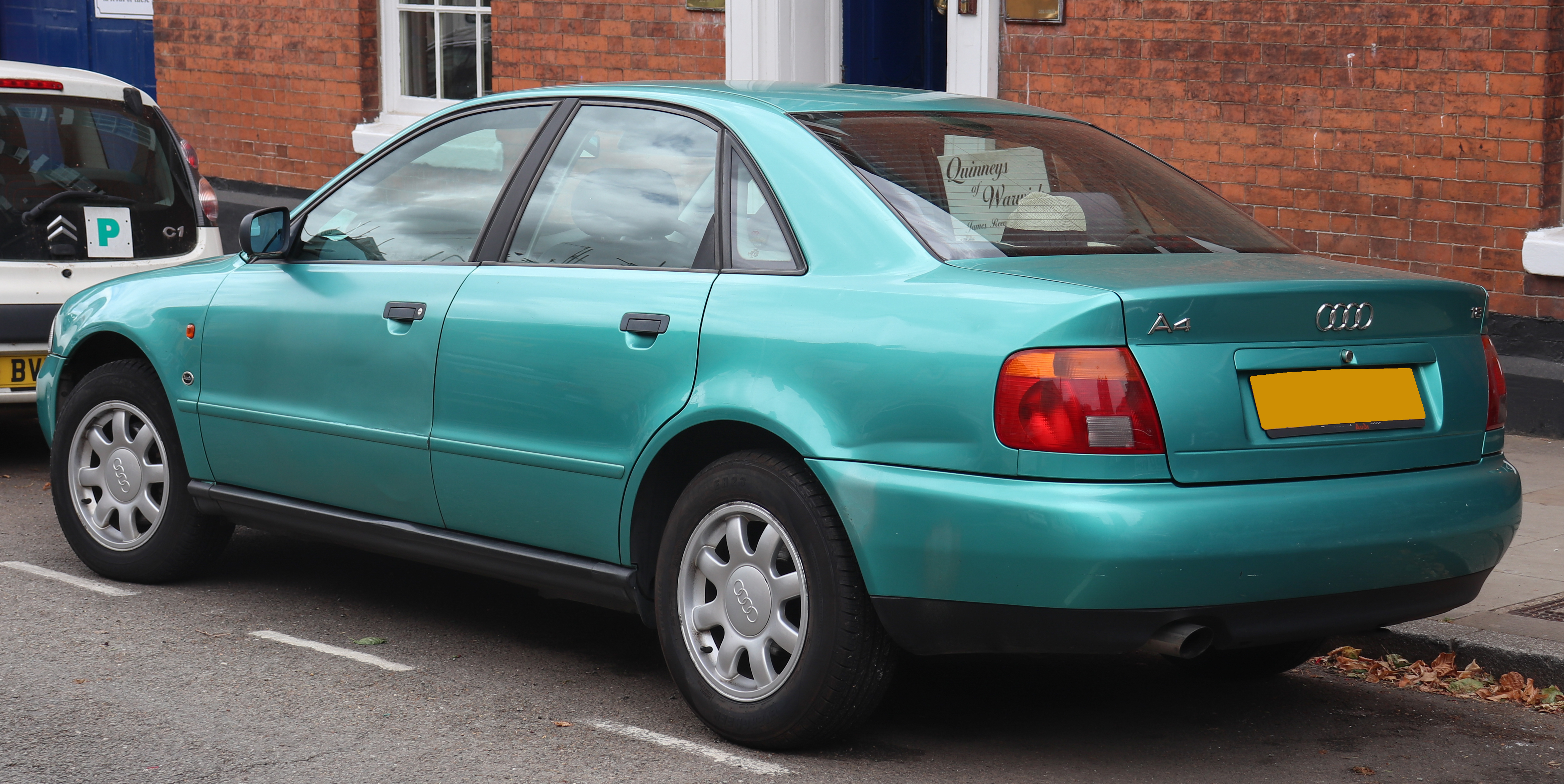 1996 Audi A4 SE 1.8 Rear Taken in Warwick